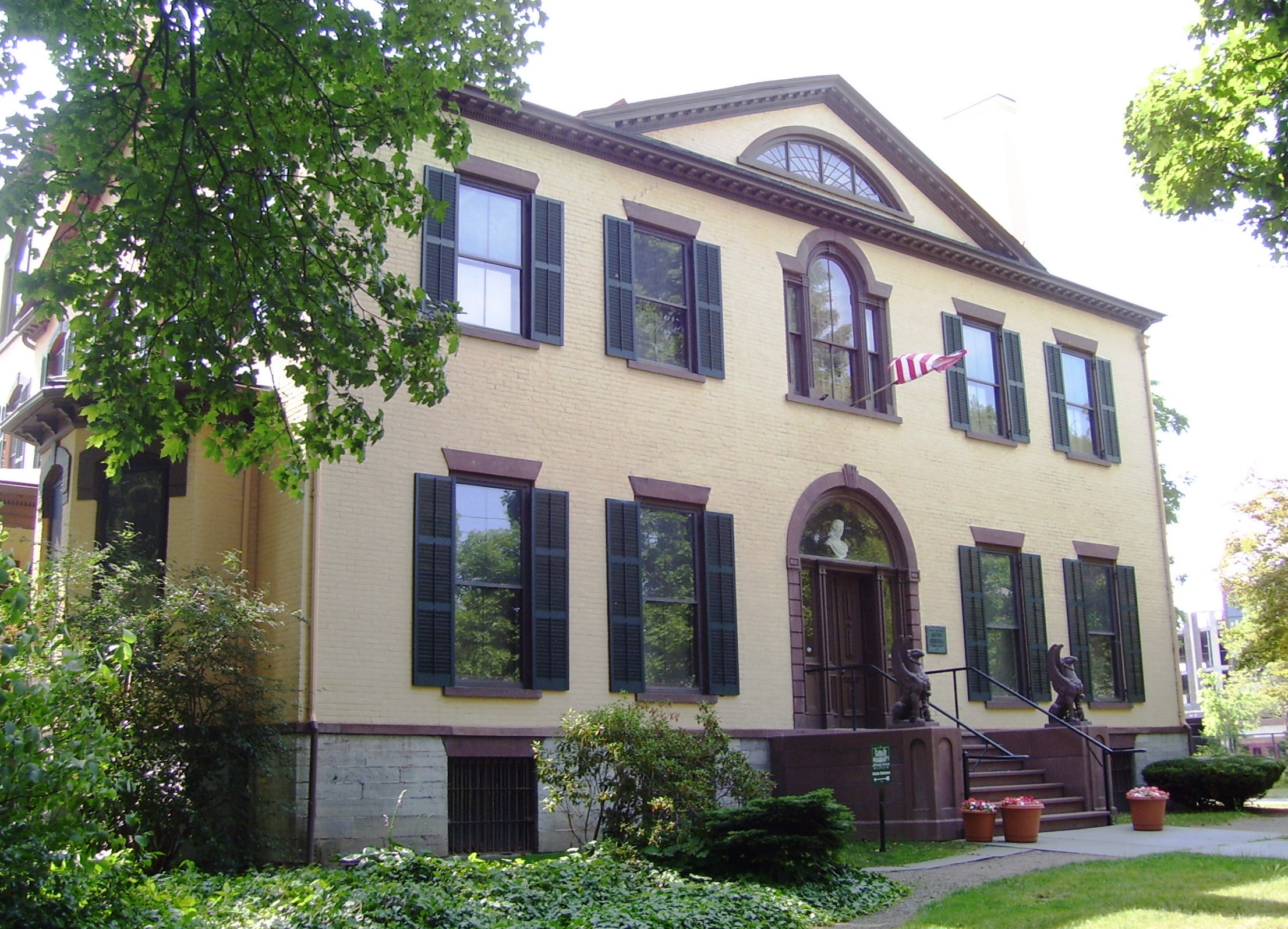 The William H. Seward House Museum, located at 33 South Street between Lincoln and William Streets in Auburn, New York, was the home of William H. Seward from 1824 until his death. It was originally built by his father-in-law, Judge Elijah Miller, in 1816, then substantially modified by the Sewards in 1840 and 1866. The original 10-room brick house was expanded to over 30 rooms.